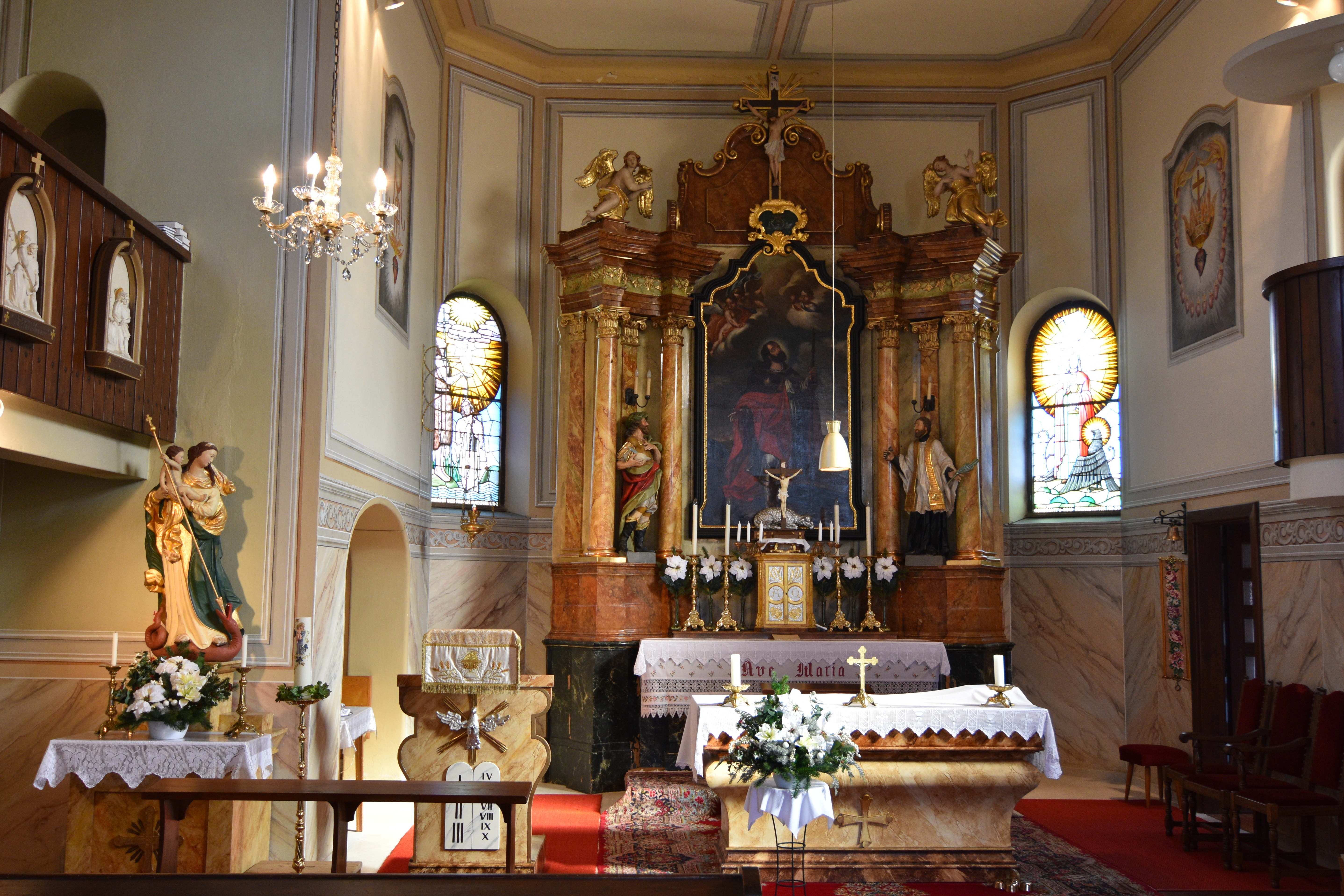 Saint James the Greater Church (Eisenberg an der Pinka) - Interior